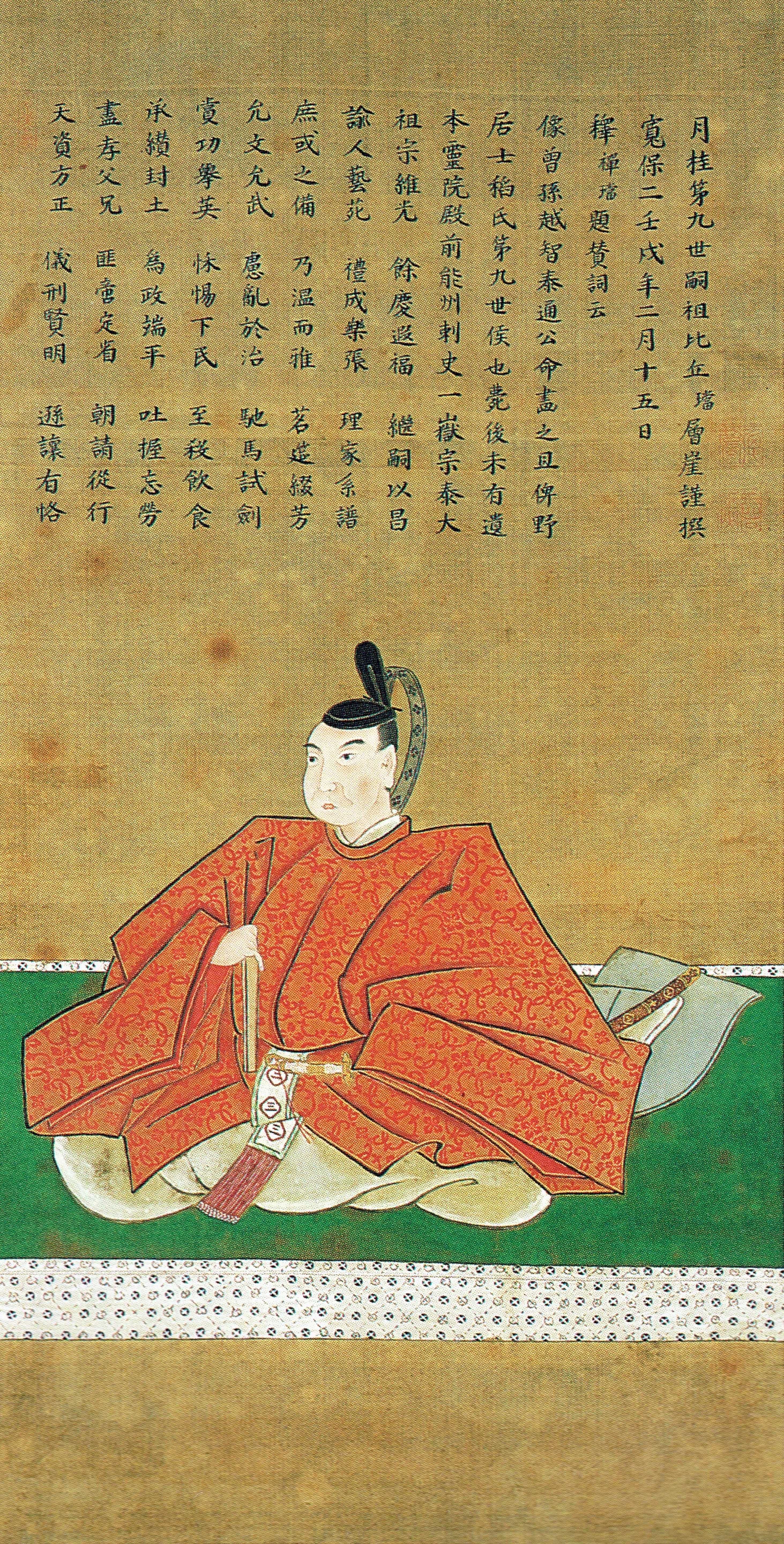 Portrait of Inaba Tomomichi, owned by Gekkei-ji Temple in Usuki, Oita, Japan